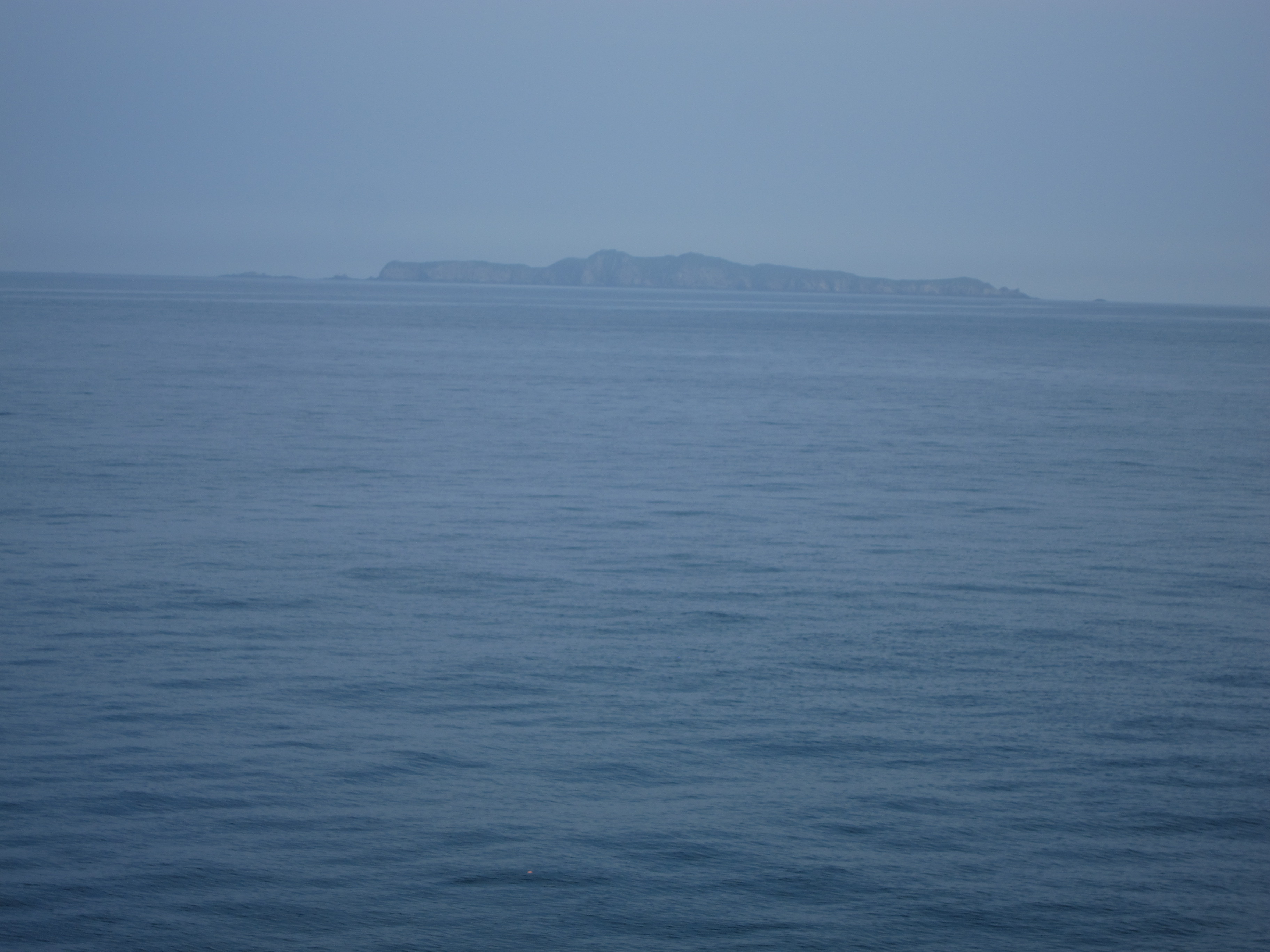 Liang Island, Beigan Township, Lienchiang County (Matsu Islands), Fujian/Fukien Province, ROC (Taiwan)